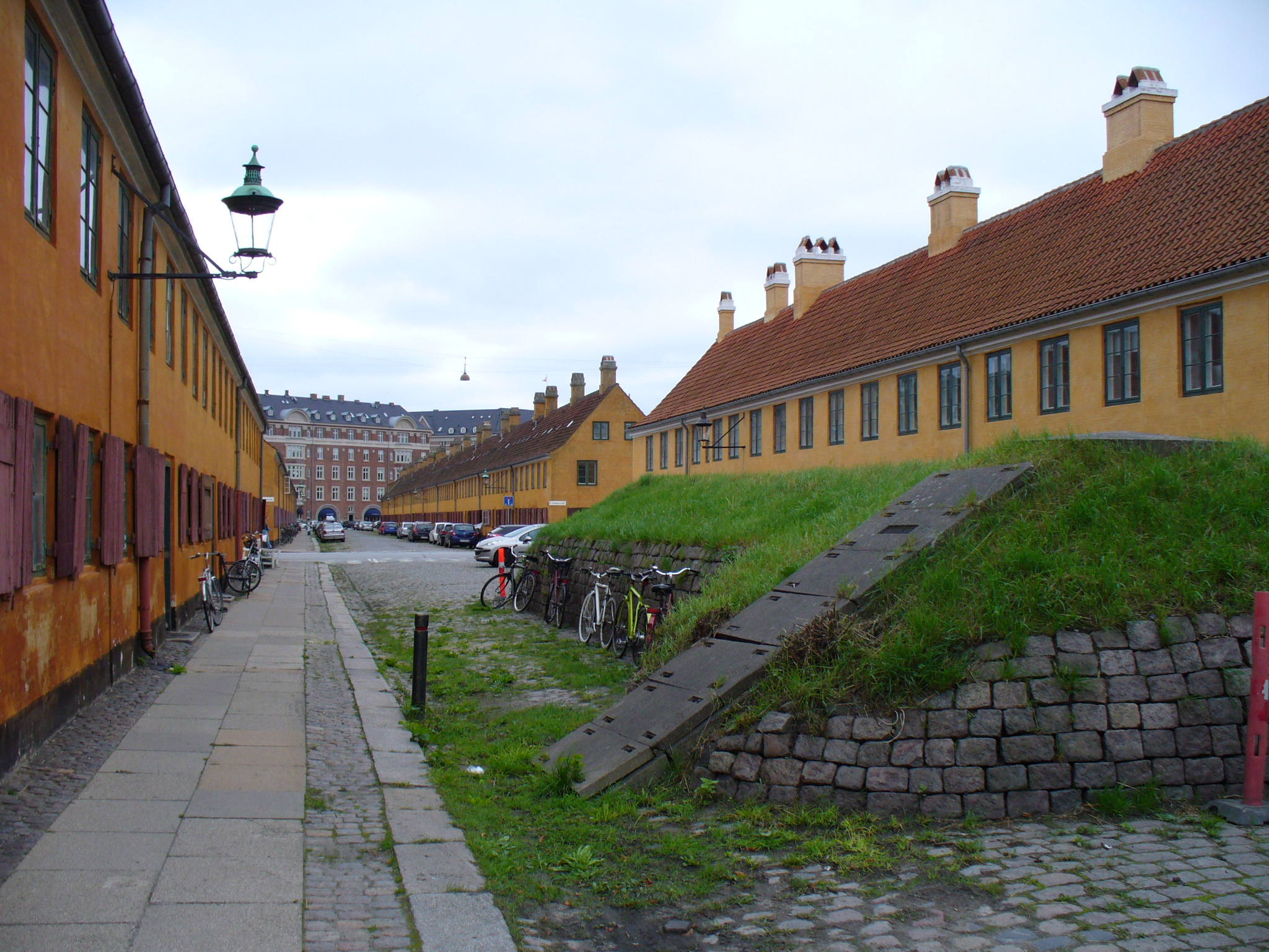 The street Delfingade in the area Nyboder in Copenhagen.